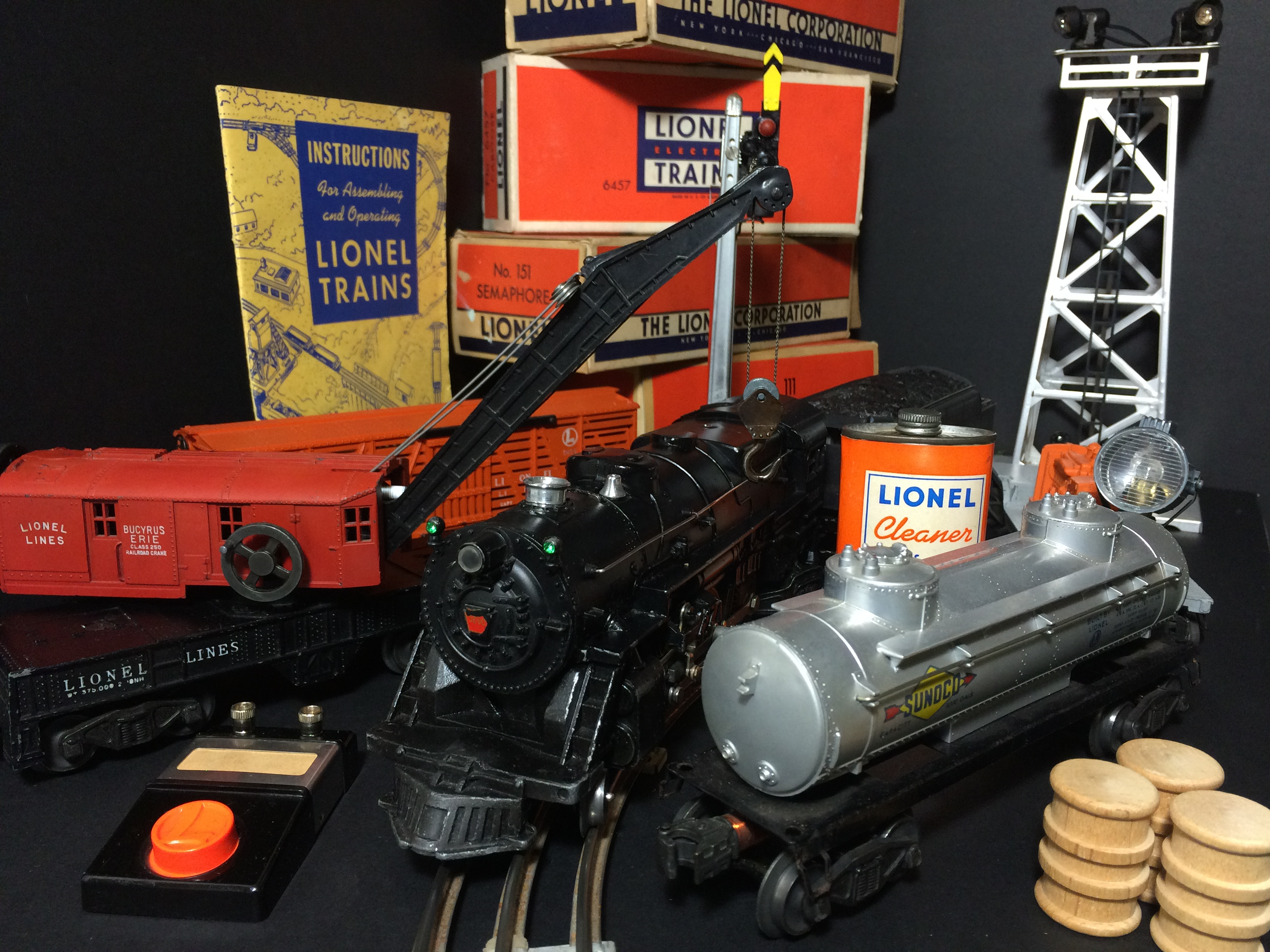 Products produced by the Lionel Corporation